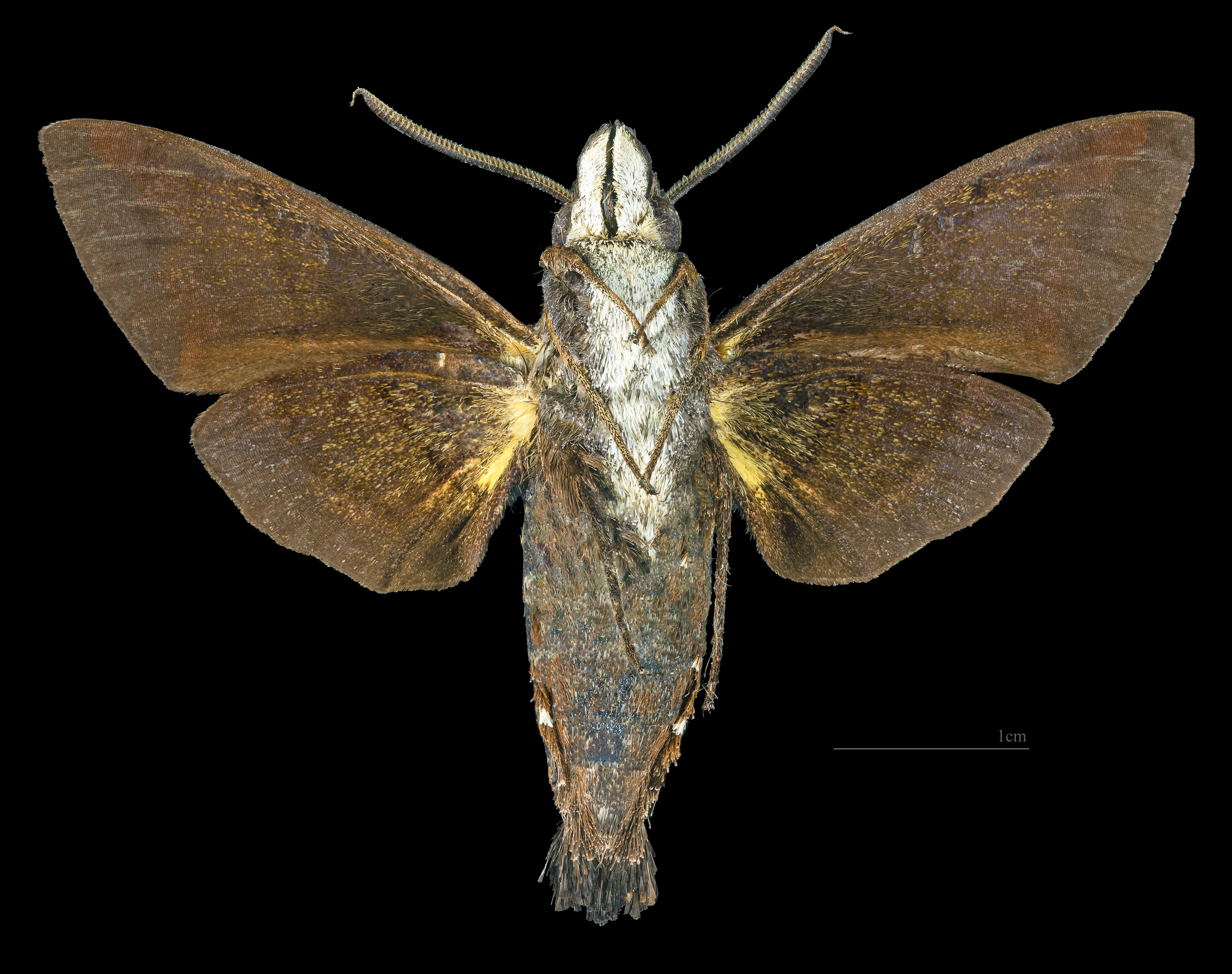 Macroglossum reithi - △ Ventral side Collection of the Mathematician Laurent Schwartz